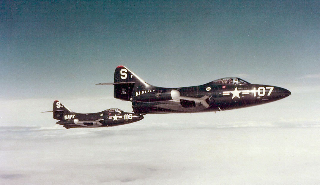 Two U.S. Navy Grumman F9F-2 Panther jets from Fighter Squadron 51 (VF-51) "Screaming Eagles" during a sortie over Korea, in 1951-52. VF-51 was assigned to Carrier Air Group 5 (CVG-5) aboard the aircraft carrier USS Essex (CV-9) for a deployment to Korea from 26 June 1951 to 25 March 1952.The pilot of the lead plane ("S-107") was Lt.JG George Russell, "S-116" was flown by Ens. Neil Armstrong.